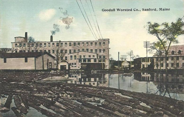 Goodall Worsted Company, Sanford, Maine